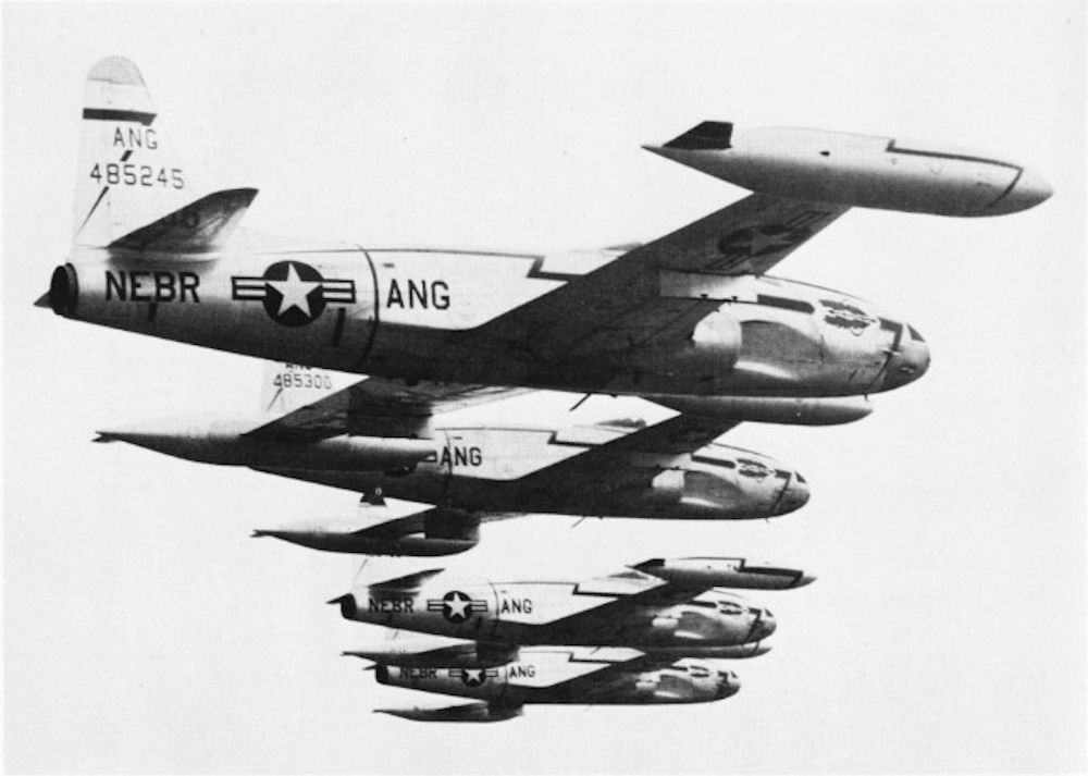 Nebraska Air National Guard 173d Fighter Squadron - Lockheed F-80A-1-LO Shooting Star 44-85245. Aircraft was later upgraded to an F-80C-11-LO